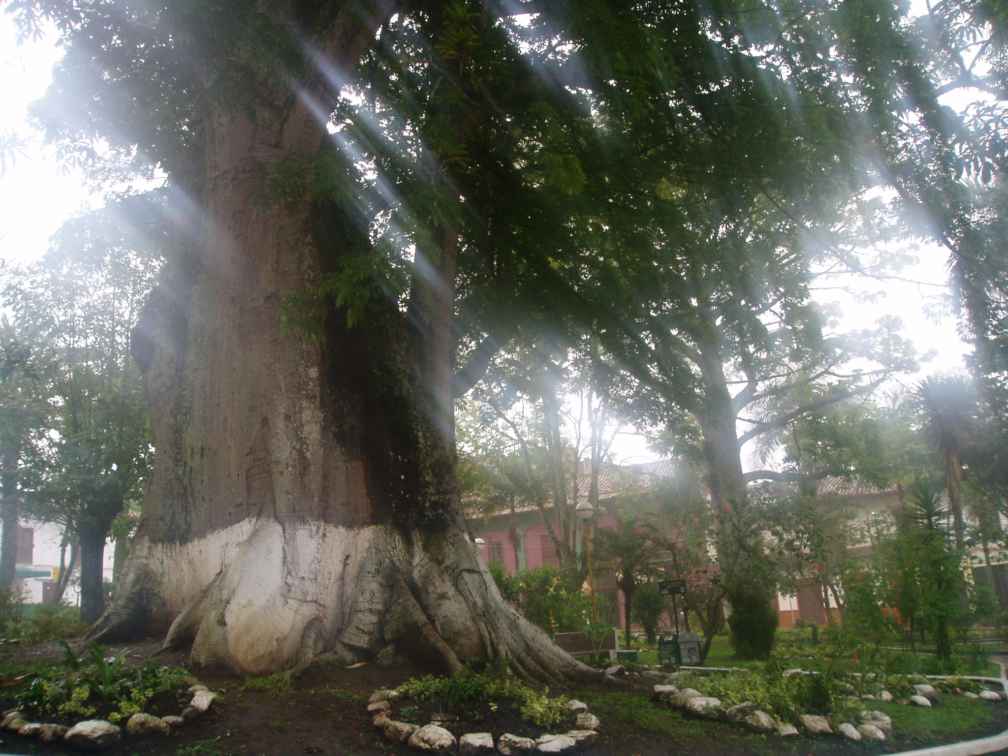 Ceiba located in the central park of Garagoa, Colombia. It is considered symbol of this municipality